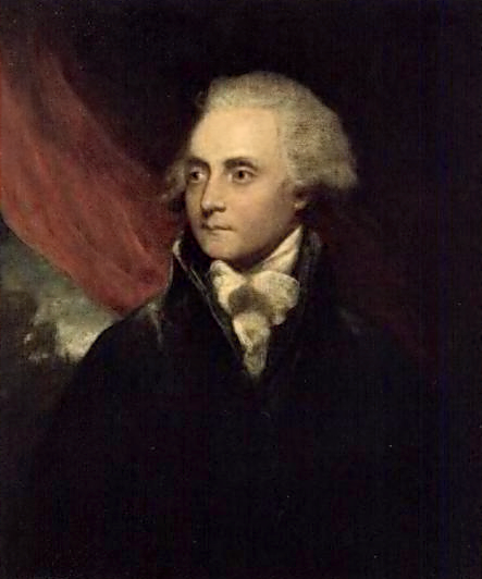 Portrait of Edmond Malone